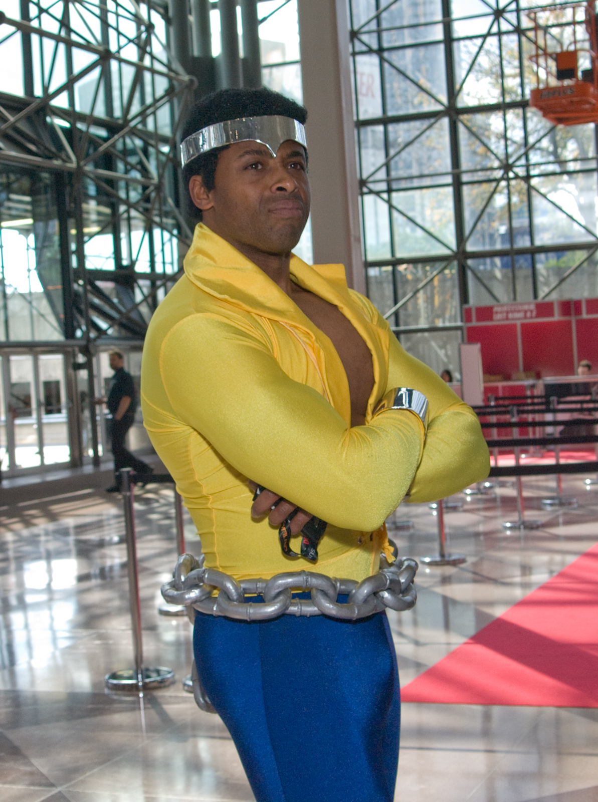 Luke Cage cosplay. Cosplayer: John A Clark